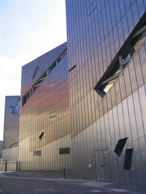 Photo by: Imcd from [1] Taken with a Sony DSC - H1 April 25, 2007 Copyright status on flickr 'Some rights reserved'